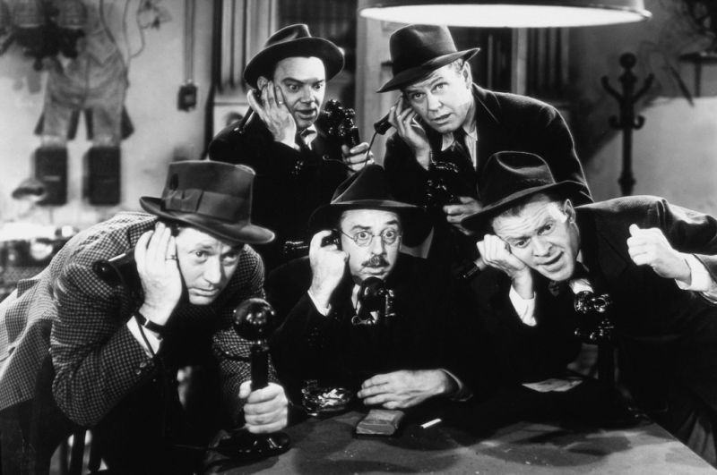 L. to R. : Roscoe Karns, Cliff Edwards, Porter Hall, Regis Toomey, and Frank Jenks in His Girl Friday (1940)